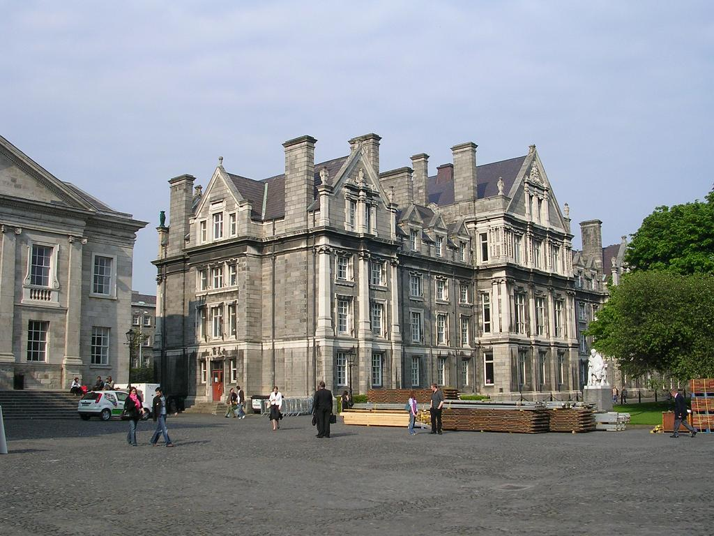 Trinity_College